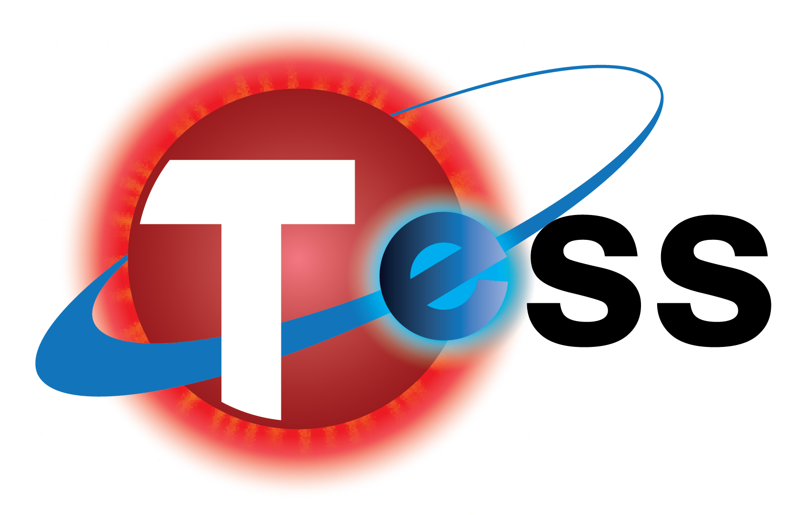 TESS Logo with Transparent Background